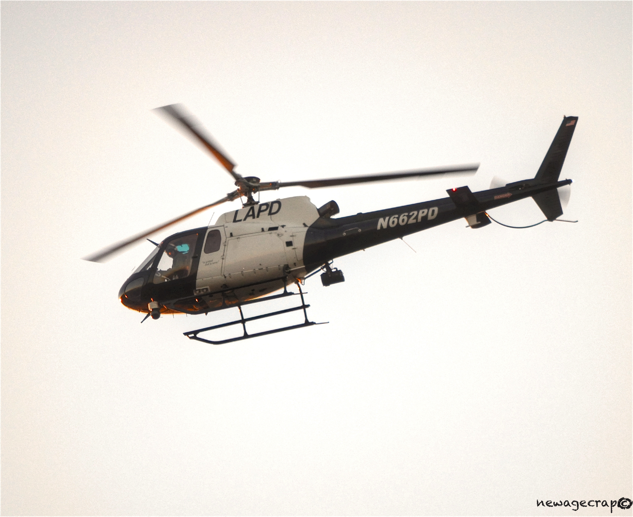 Los Angeles Police Department Eurocopter AS 350 B2